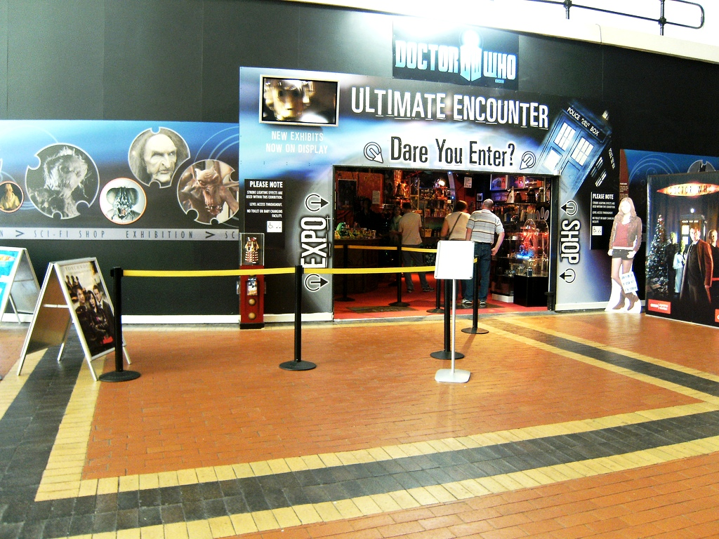 Doctor Who Exhibition, Red Dragon Centre, Cardiff, Wales.